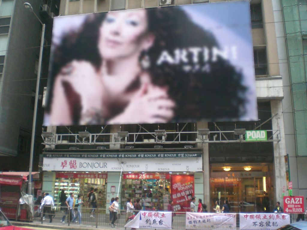 中環卓悅控股分店